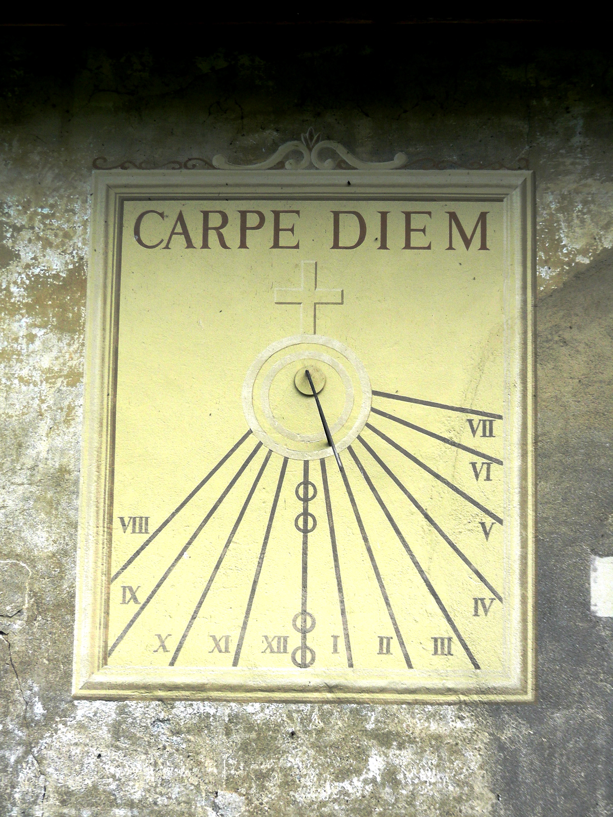 Sundial on the side of a building in Yvoire, Haute-Savoie, France.